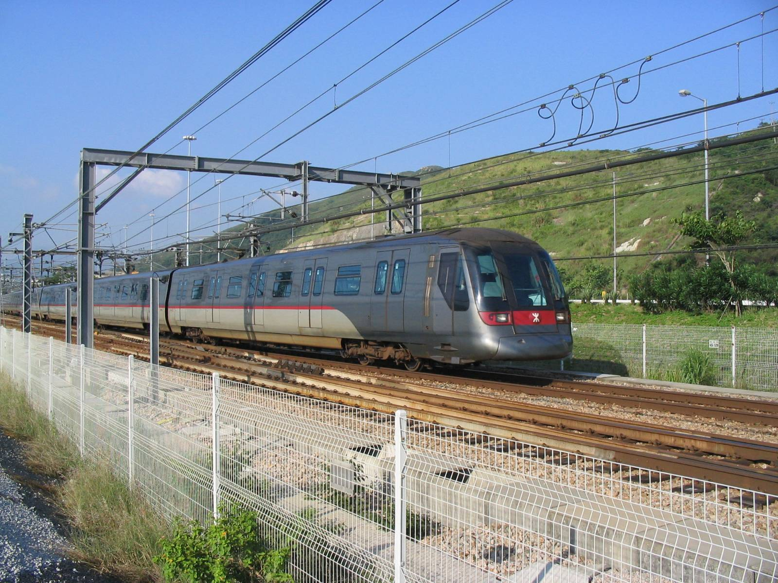 東涌線列車，於欣澳站附近。Tung Chung Line Train, near Sunny Bay Station